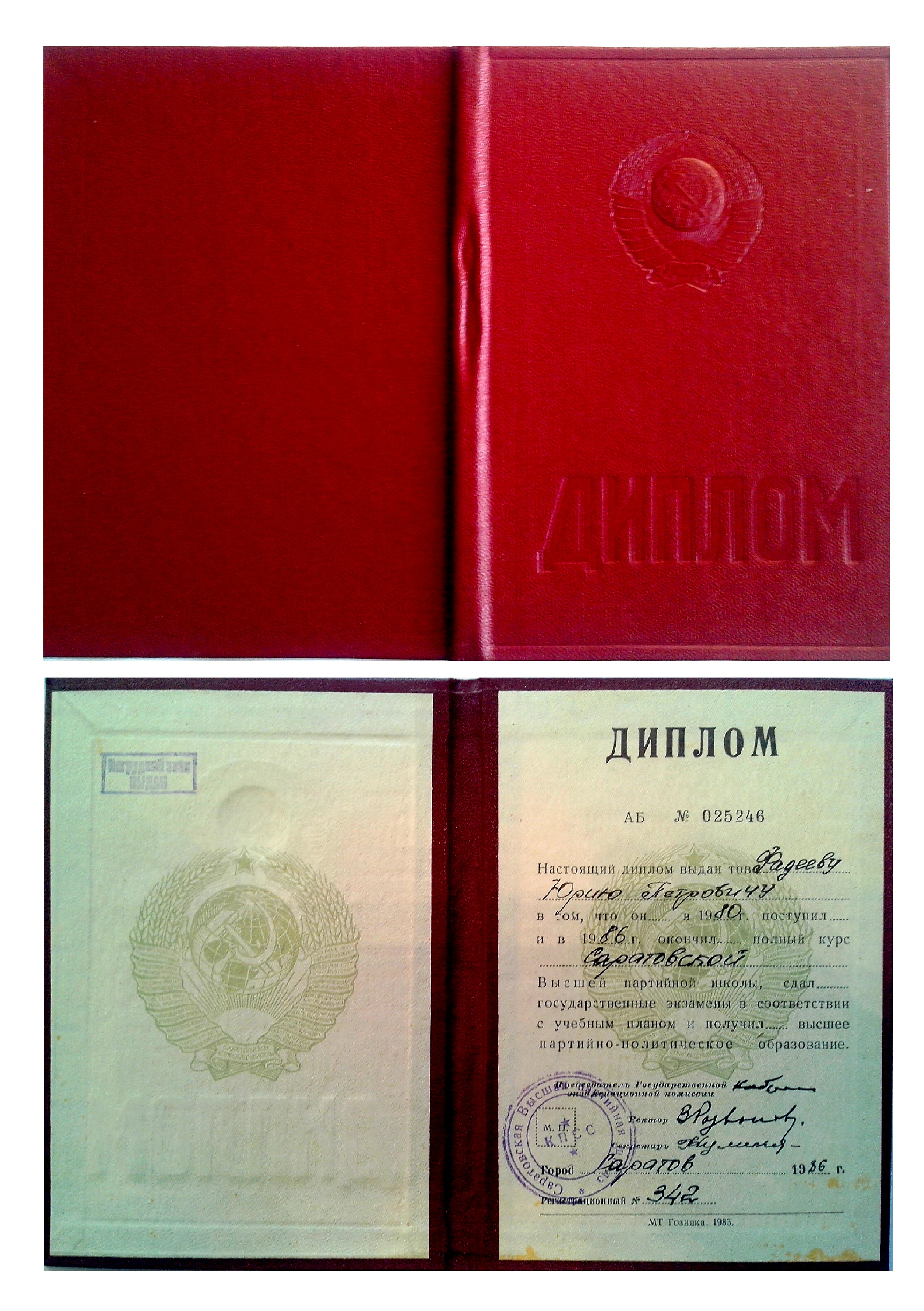 State diploma of "HIGHER PARTY SCHOOL" under the Central Committee of the Communist party of the Soviet Union. Moscow